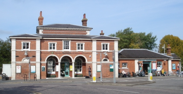 Main building at Rye railway station. Photographed on en:30 September en:2007.